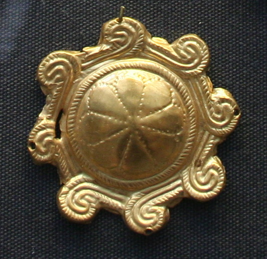 Part of the Aegina treasure. One of 54 identical gold plaques. A convex boss is decorated with a rosette of petals. On the rim eight connected spirals. British Museum Catalogue Jewellery #692-745. Description after Higgins: The Aegina Treasure, 1979